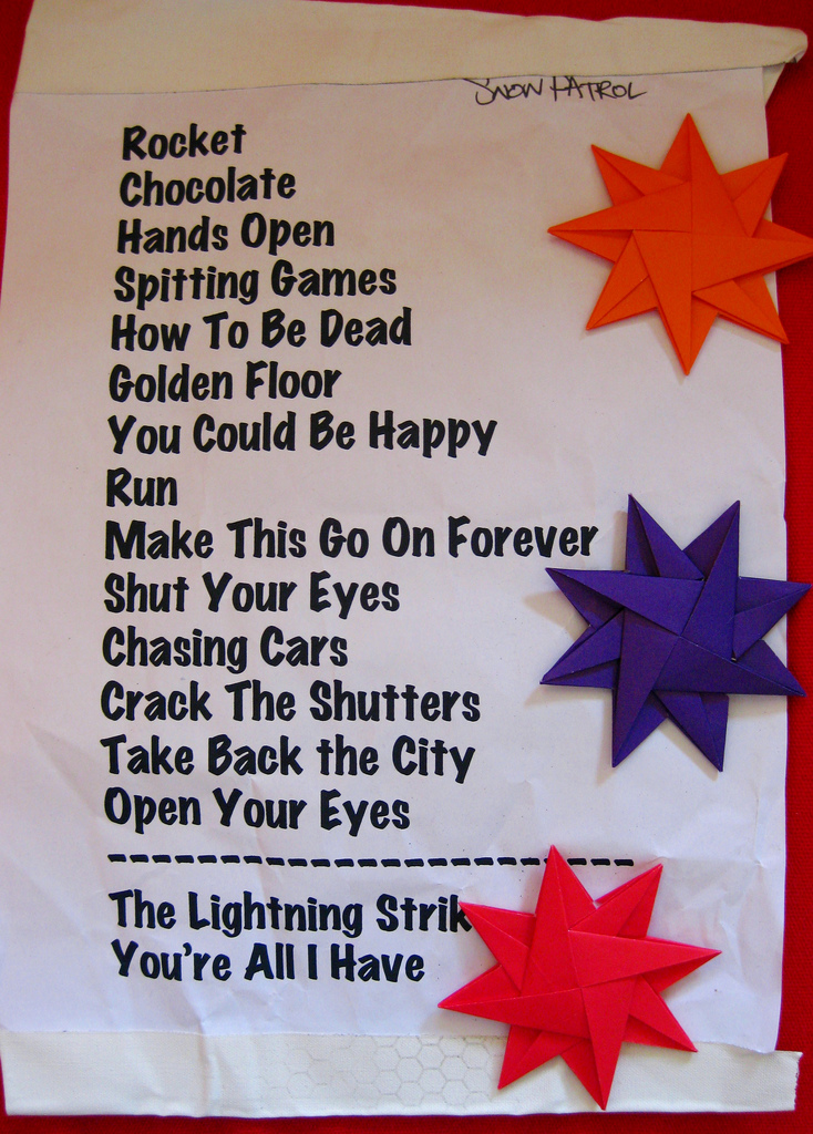 Snow Patrol setlist at Zenith, Munich concert on May 24, 2009